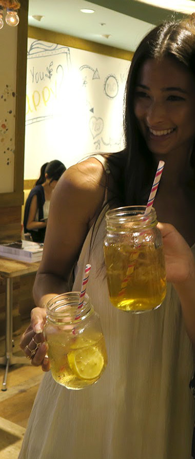 Melody Yoko